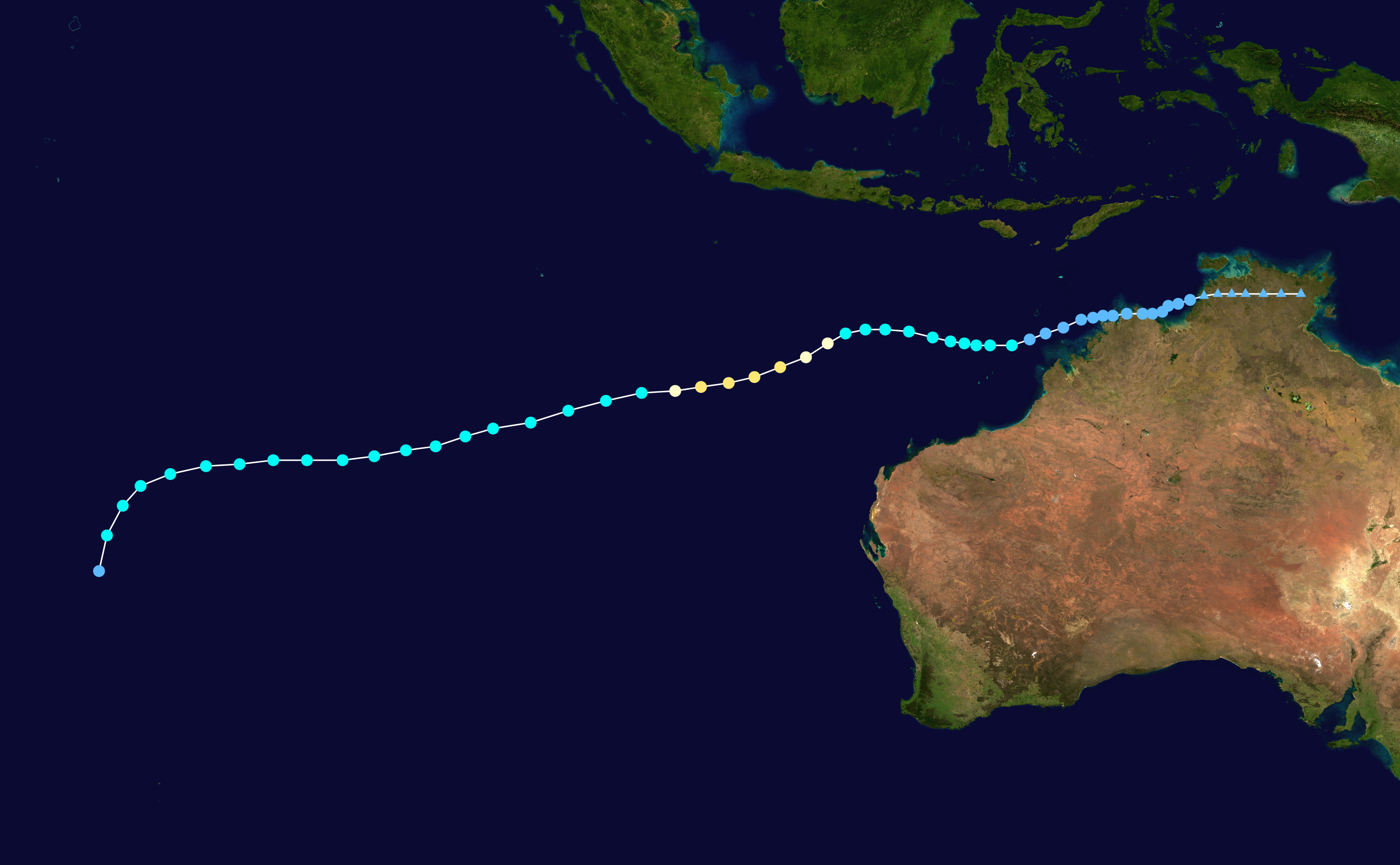 Track map of Severe Tropical Cyclone Victor–Cindy of the 1997–98 Australian region and South-West Indian Ocean cyclone seasons. The points show the location of the storm at 6-hour intervals. The colour represents the storm's maximum sustained wind speeds as classified in the Saffir-Simpson Hurricane Scale (see below), and the shape of the data points represent the nature of the storm, according to the legend below.